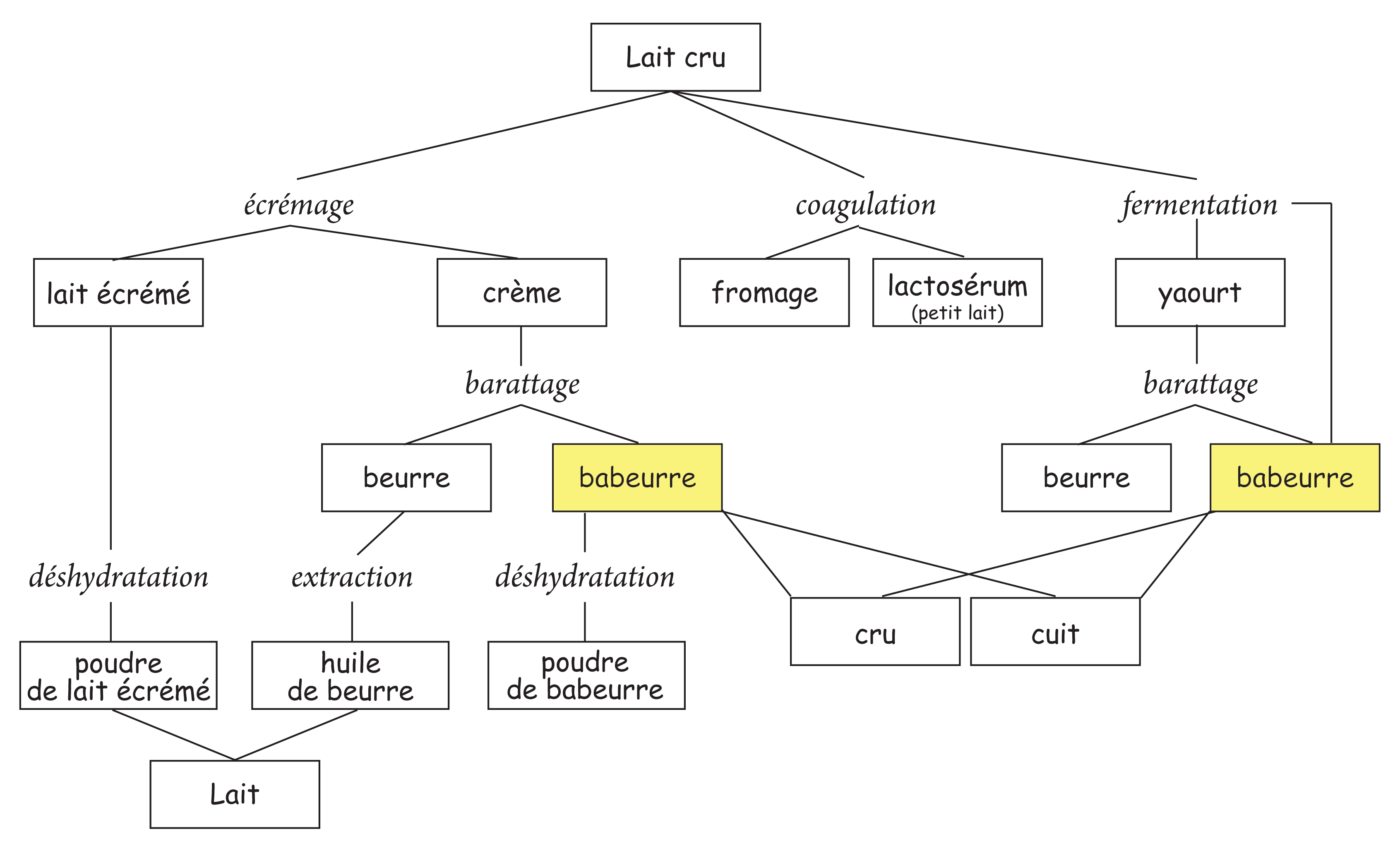 scheme of the production of buttermilk